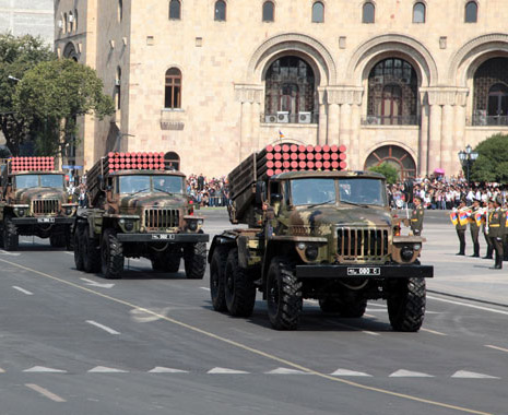 bm-21 in armenian army parade